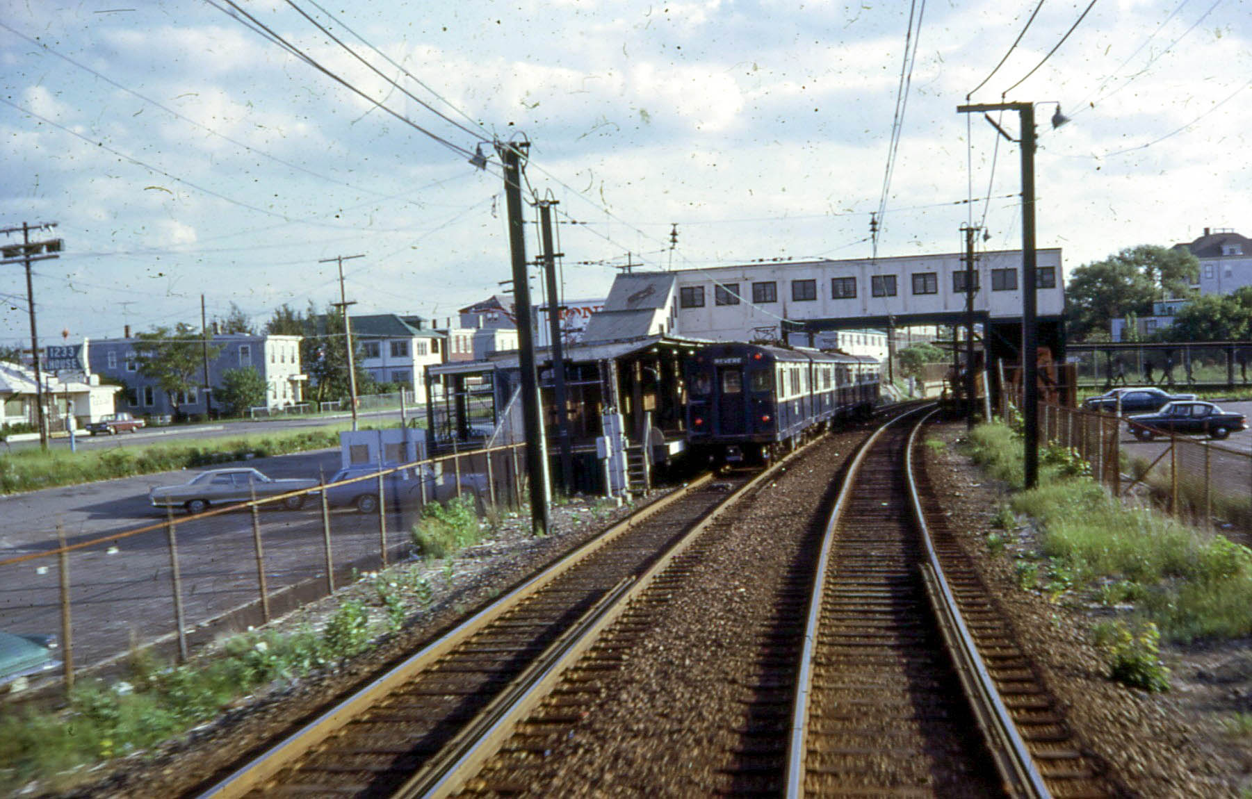 An outbound Blue Line train arrives at Suffolk Downs in 1967